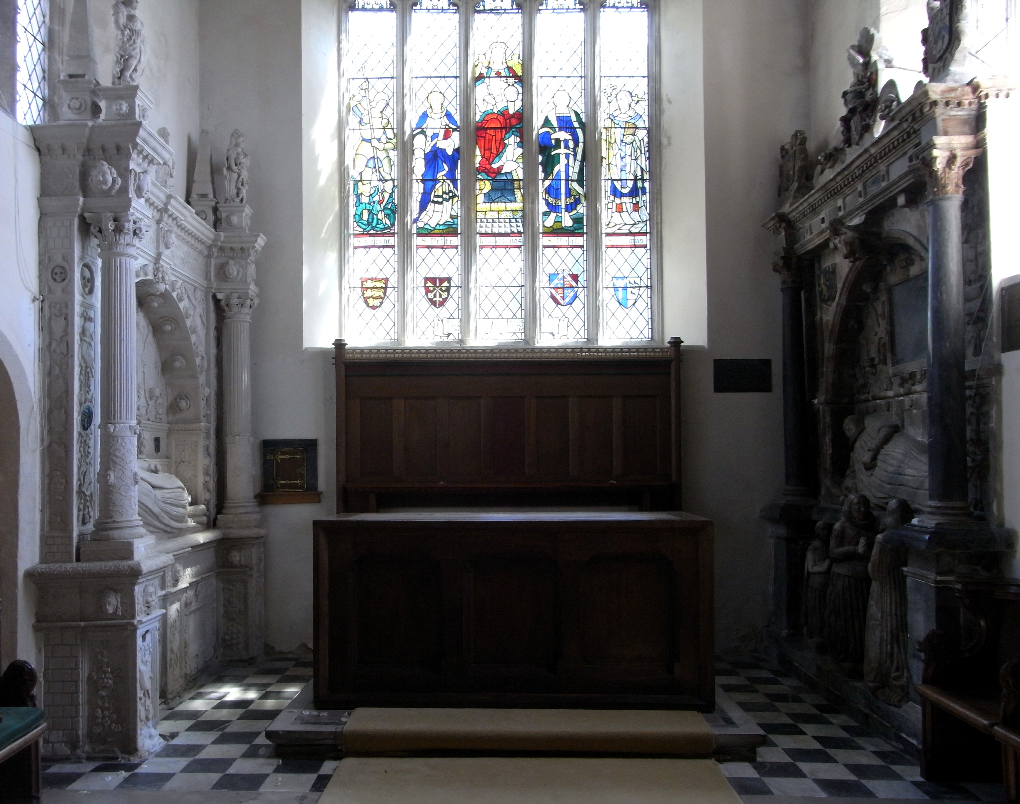 Chancel of Bovey Tracey Church, Devon (dedicated to St Peter, St Paul and St Thomas of Canterbury) looking eastward. On the left (north) side of greatest honour, the monument with effigy of Nicholas Eveleigh (d.1620); on the south side the monument with effigy of Elize Hele (d.1635), who married Eveleigh's widow Alice Bray. The stained glass window was erected in 1940 and shows 5 figures, including the saints to whom the church is dedicated and below various coats of arms (left to right): St George, above the arms of Plantagenet (royal arms of England), St George being the patron saint of the Kingdom and of the Order of the Garter. St Peter, above the arms of the Bishop of Exeter, whose seat at Exeter Cathedral is dedicated to St Peter. Christ enthroned as "King of Kings" St Paul, above the arms of Lady Margaret Beaufort, Countess of Richmond and Derby, a benefactress of the church and mother of King Henry VII (1458-1509). St Thomas Beckett, Archbishop of Canterbury, above the arms of the See of Canterbury impaling the attributed arms of Thomas Becket. One of the murderers of Thomas Beckett, Archbishop of Canterbury, was a knight of the de Tracey family, a branch of which held the manor of Bovey Tracey.